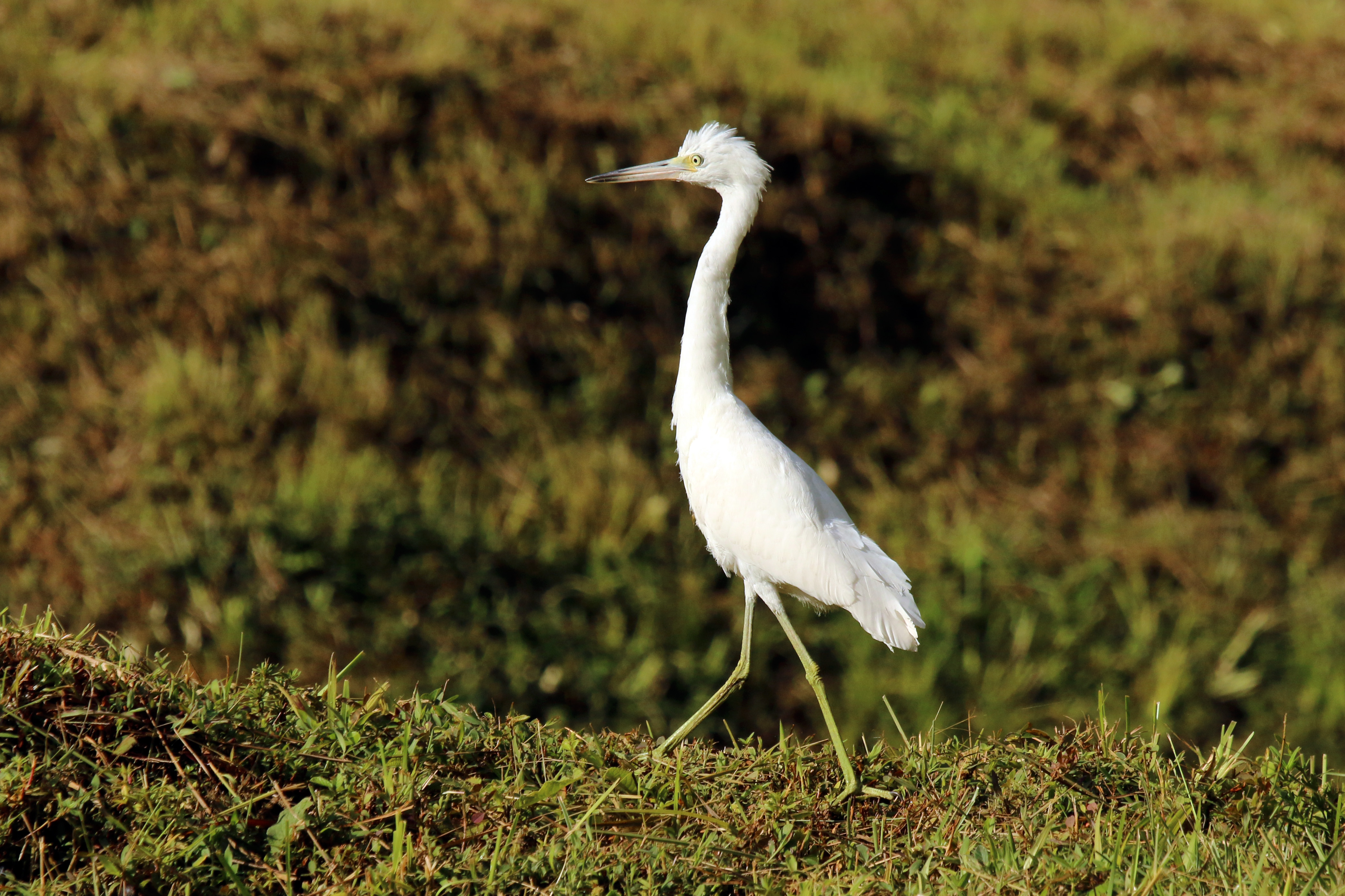 Little blue heron (Egretta caerulea) juvenile, Tobago